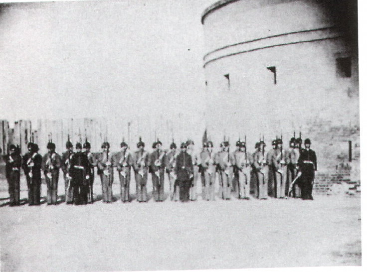 The Charleston Zuave Cadets in Castle Pinckney {note: Francis Miller's 1911 "Photographic History of the Civil War" Vol 1 "The Opening Battles" identifies the 4 officers in front left to right are Captain C.E.Chichester; Lt. E. John White; Lt. B.M. Walpole; Lt. R.C.Gilchrist. See .p.89